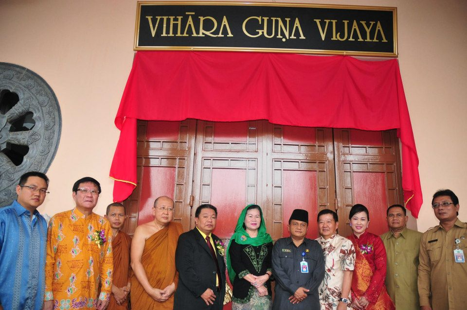 Peresmian Vihara Guna Vijaya